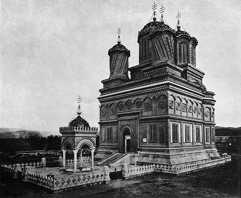 The Orthodox Cathedral in Curtea de Argeş, Romania